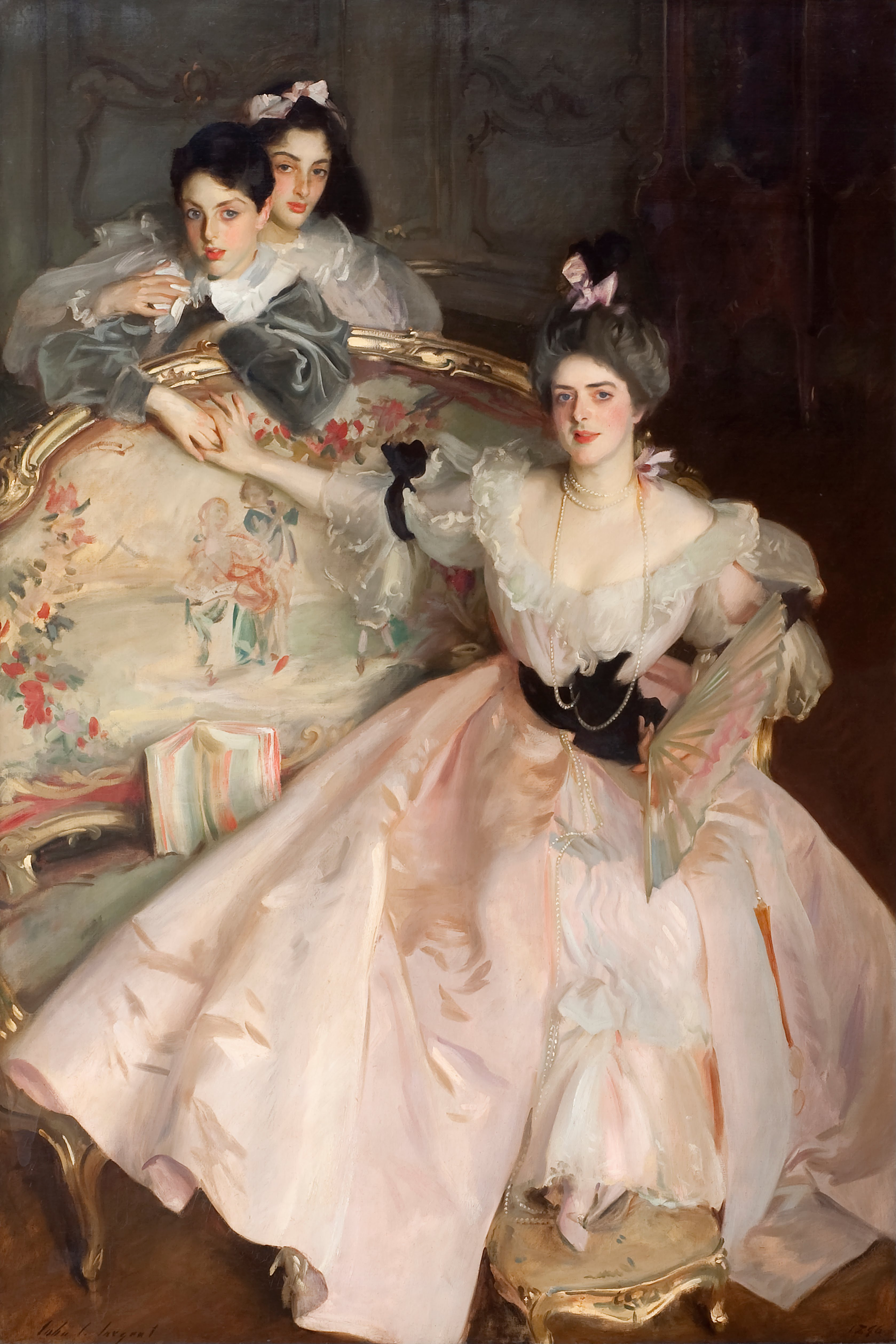 The painting shows Adele Meyer